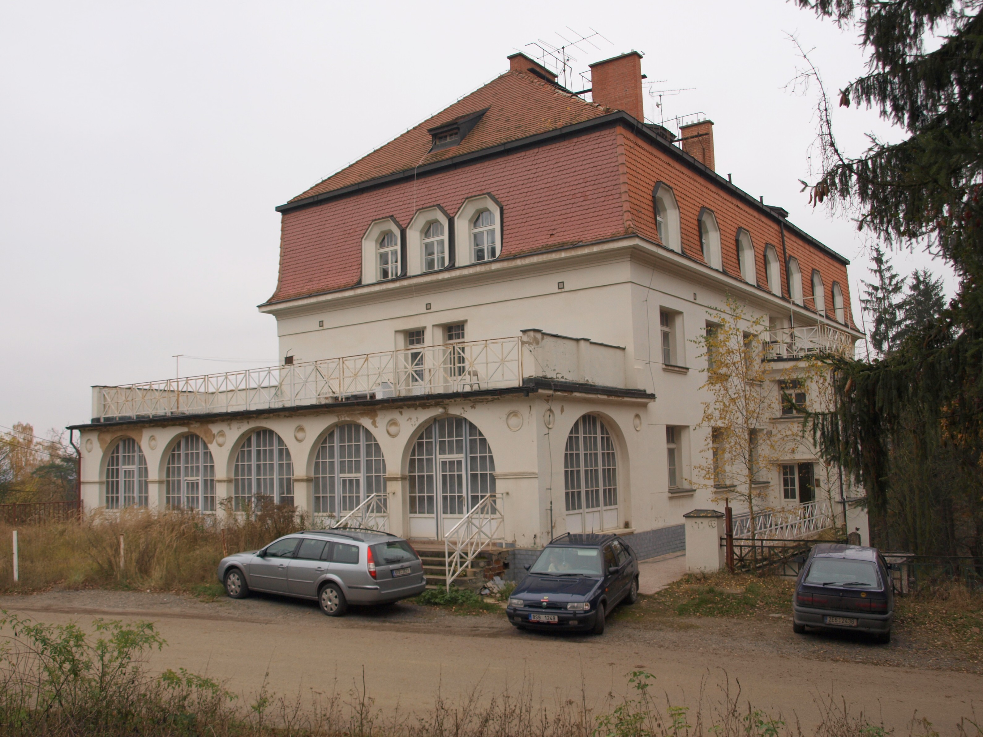 Building of former pension (todays private flats), which was used in cooperation with sanatorium near Prosečnice train stop, Central Bohemian Region